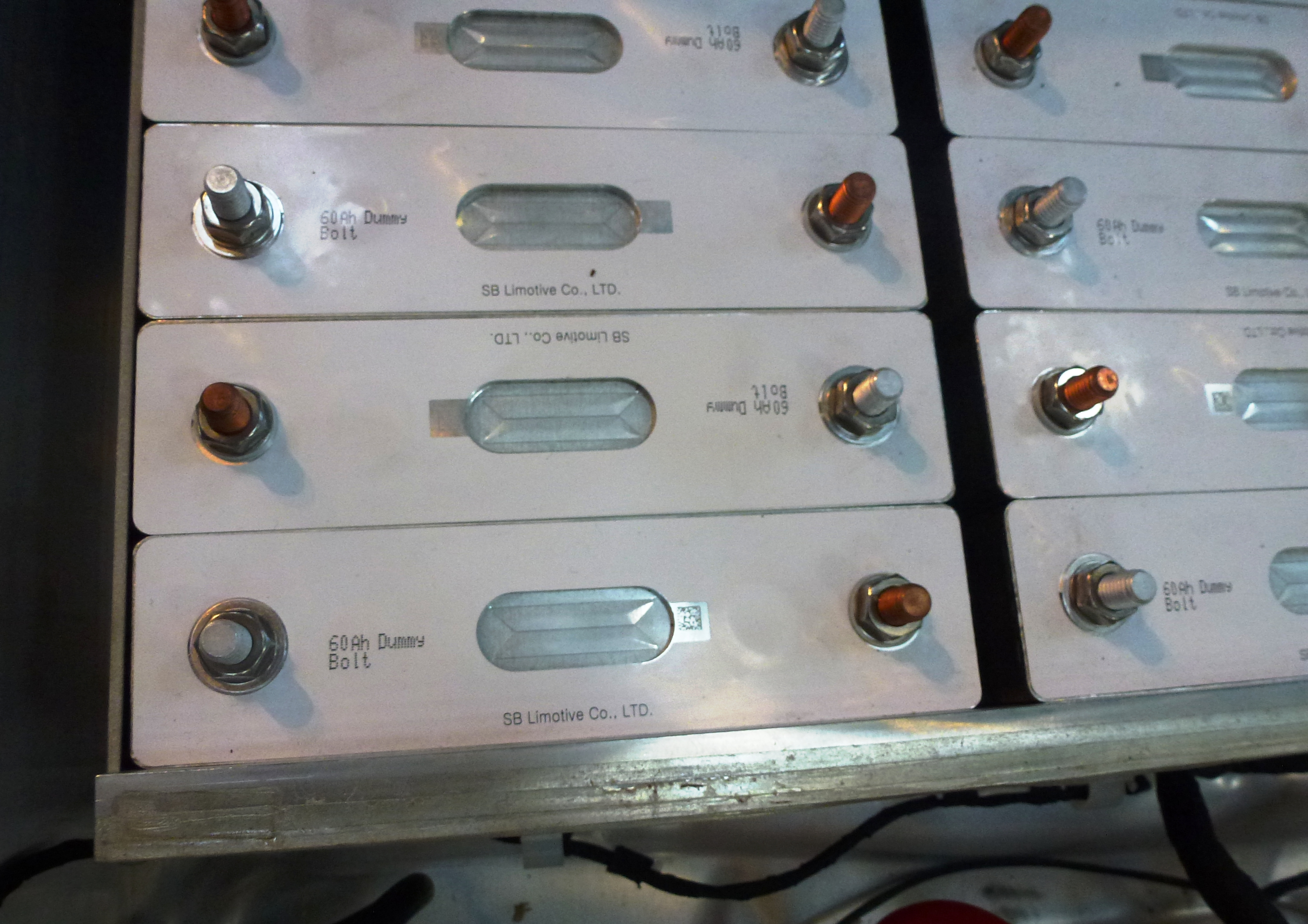 Lithium-Ion Battery Cells for BMW-i3 Electric Vehicle (Sample)